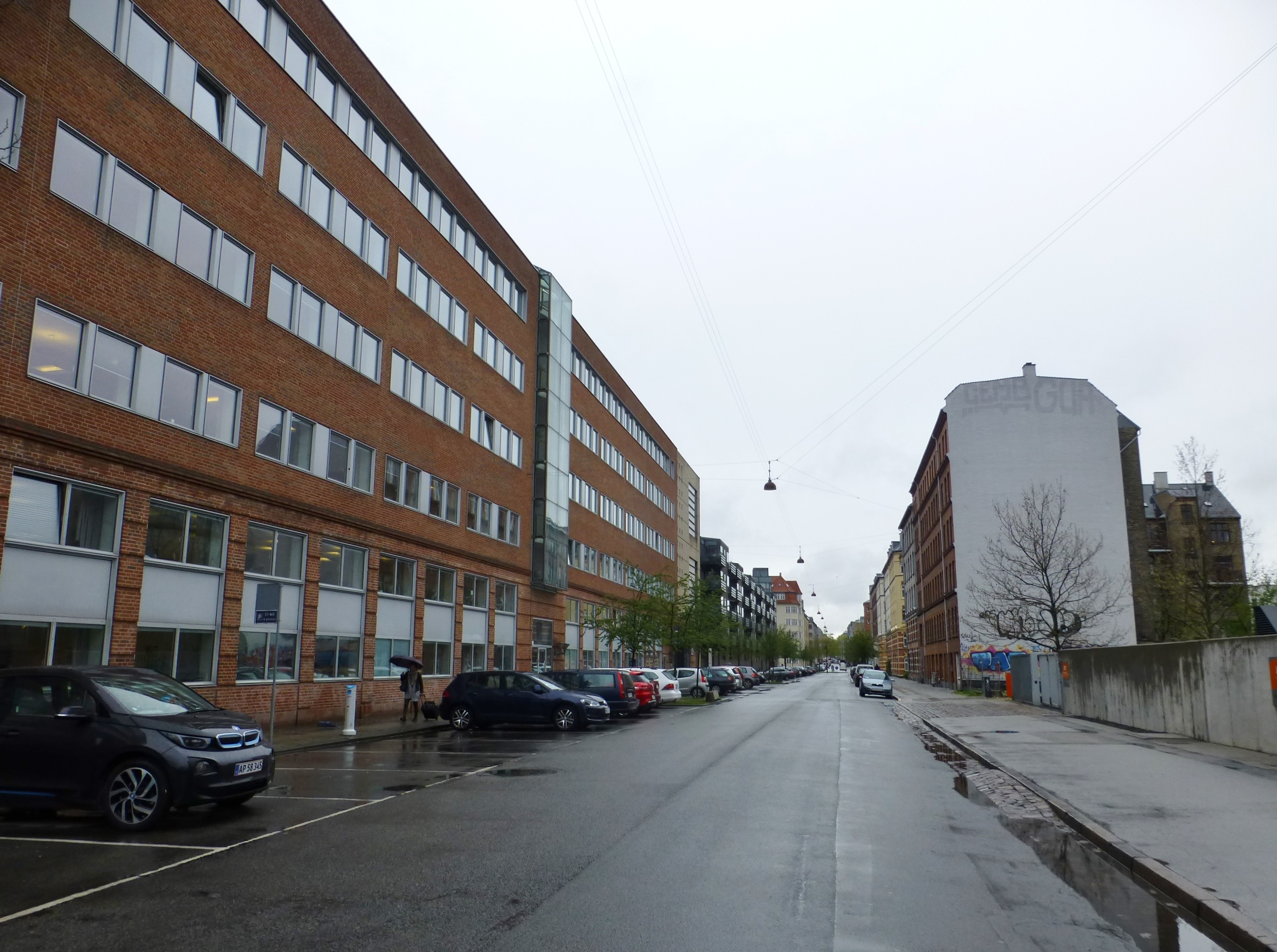 The street Hjørringgade in Østerbro in Copenhagen.